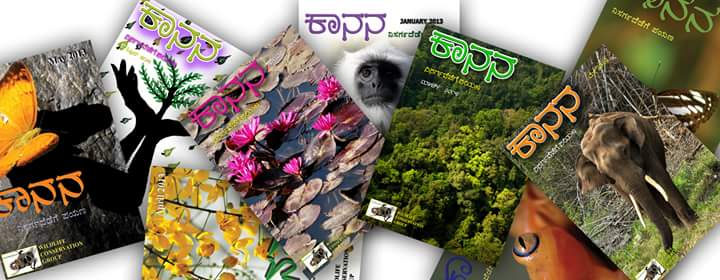 ಕಾನನ ನಿಸರ್ಗದೆಡೆಗೆ ಪಯಣ ಮಾಸ ಪತ್ರಿಕೆ